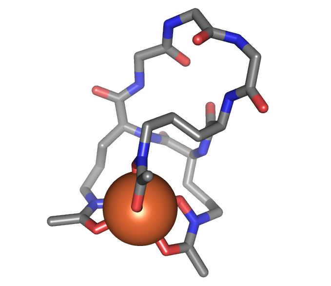 chemical structure of ferrichrome (iron atom shown as sphere, peptide shown as sticks)